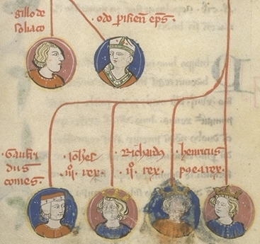 Detail of MS450, of genealogical tree with Bishop Odon (top right). De origine prima Francorum f 190r, see also Un manuscrit avec l’Arbor genealogiae regum Francorum de Bernard Gui. The tree shows descendants of William the Conqueror. (His daughter Adela m. Stephen, Count of Blois, of whom William, Count of Sully, and his son Eudes (Archambaud) II de Sully), two of whose sons are depicted (Gilles on left and Odo on right (detail of file below)